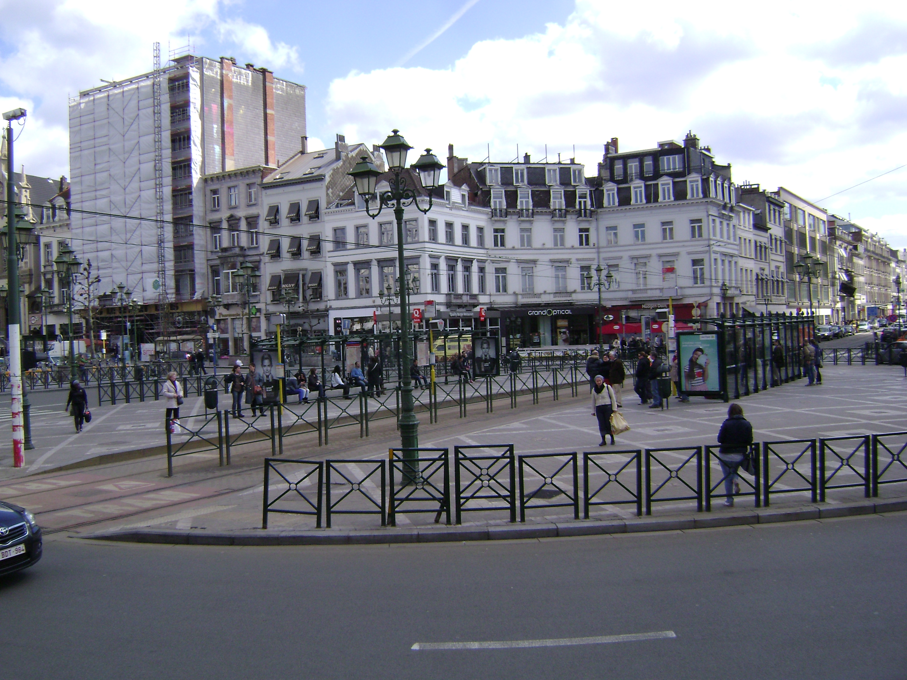 Louise tramway stop in Brussels.